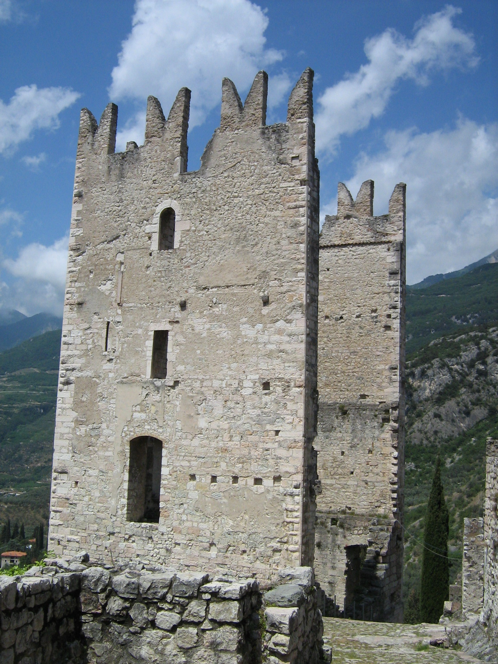 The Maintower from the Castle Arco in Arco